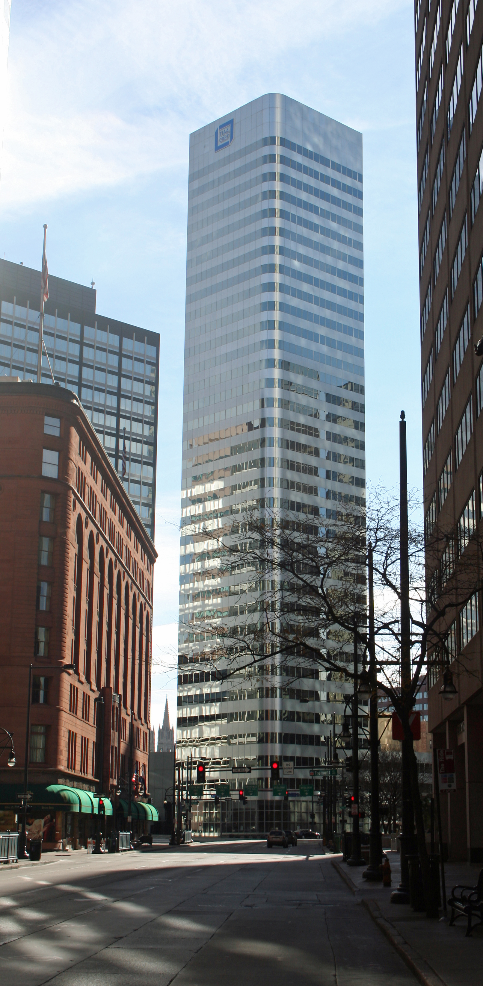 The building at 1670 Broadway in Denver, Colorado